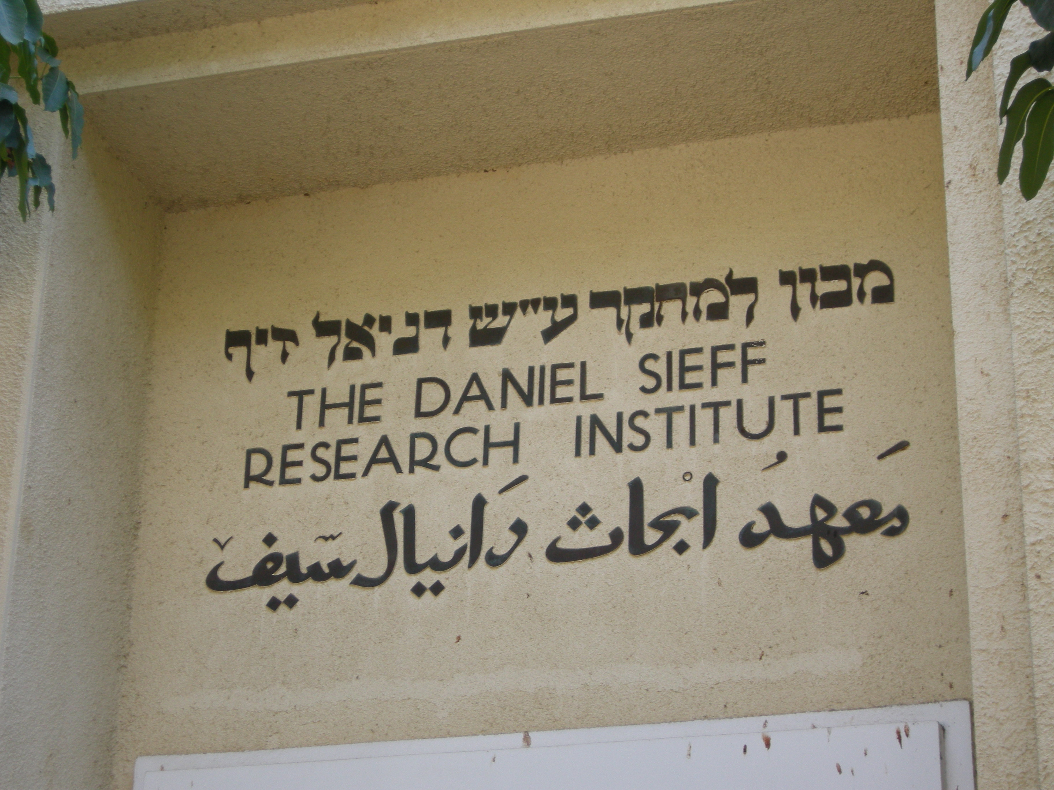 Weizmann Institute of Science photos taken during a wikipedia guided tour